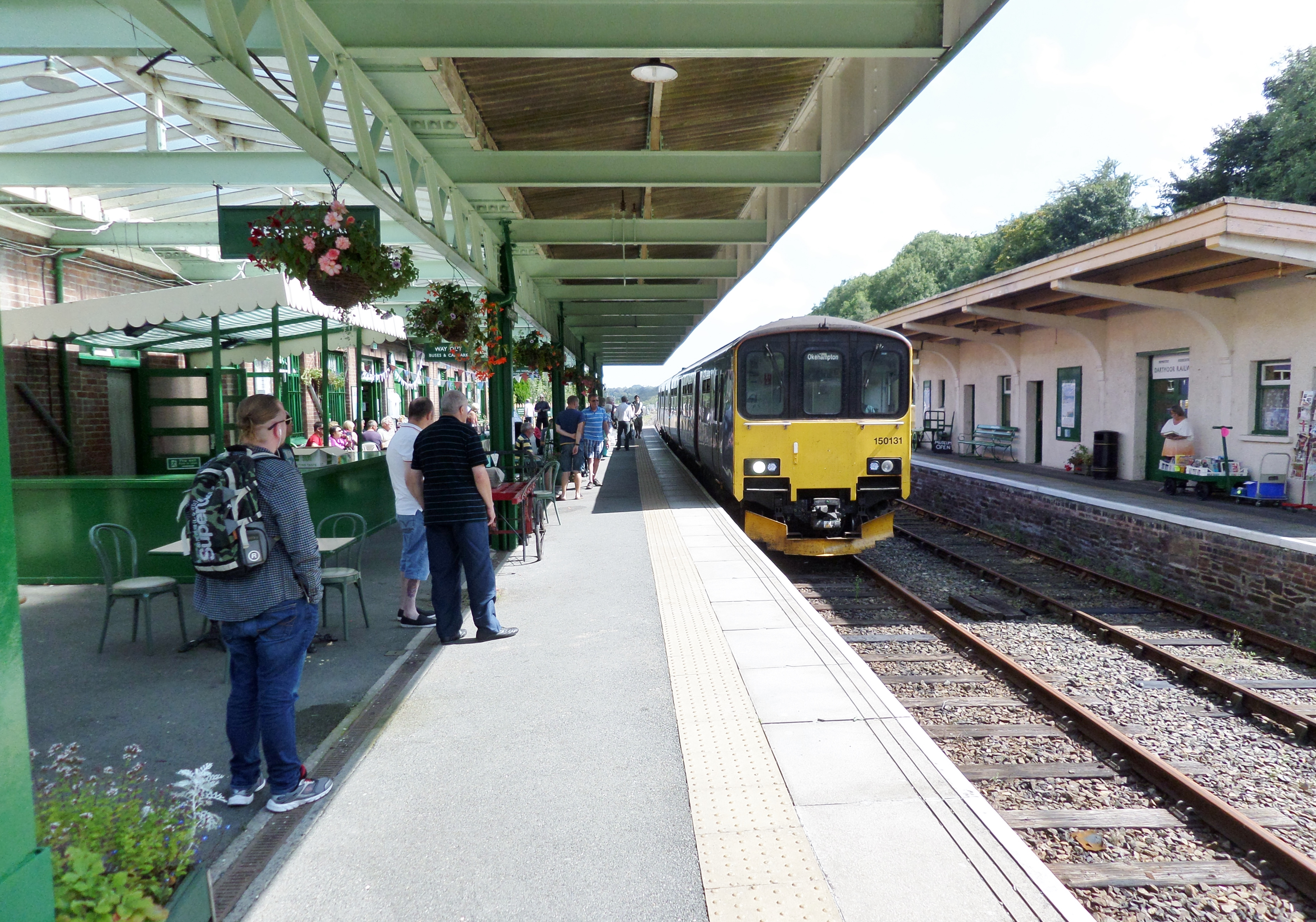 Okehampton Station and view towards Sampford Courtenay, Devon with the Sunday Rover train.